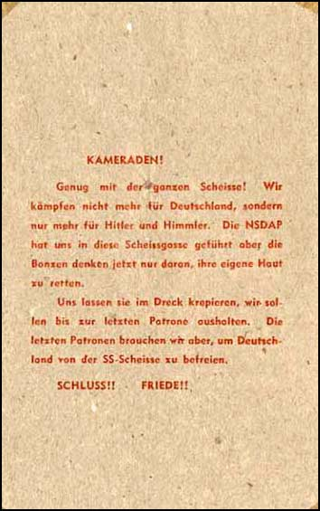 Image of propaganda toilet paper used in WWII.